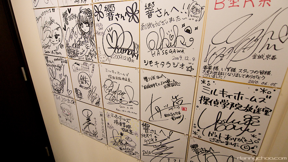 Square drawing papers (The Headquarter of Hibiki Inc.)